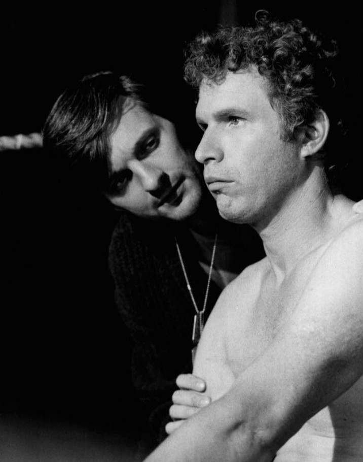 Photo of Alan Alda as Hawkeye and Wayne Rogers as Trapper John from the television program M*A*S*H. The episode is "Requiem For a Lightweight". Hawkeye manages Trapper in a base boxing match he got into over the transfer of a nurse both are interested in.